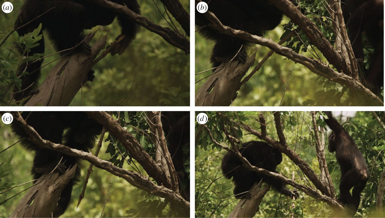 Tool-assisted hunting by chimpanzee at Fongoli, Sénégal. Adult male chimpanzee uses tree branch with modified end to (a–c) stab into a cavity within a hollow tree branch that houses a Galago he ultimately captures as (d) his adolescent brother looks on.